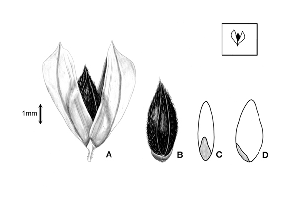 U.S. National Seed Herbarium drawing: A: Spikelet; B: floret; C-D: caryopsis in two views of Phalaris brachystachys drawn by Lynda E. Chandler or Karen Parker [scanned by Robert J. Gibbons & Kate O'Mara*]*from Gunn, C.R. & C.A. Ritchie. 1988. Identification of disseminules listed in the Federal Noxious Weed Act. U.S. Department of Agriculture Technical Bulletin 1719.